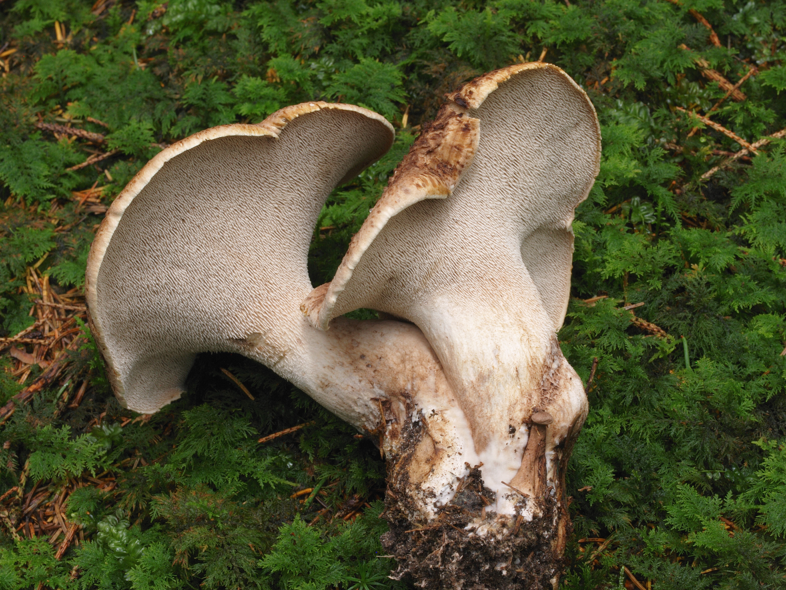 Shingled Hedgehog (Sarcodon_imbricatus)